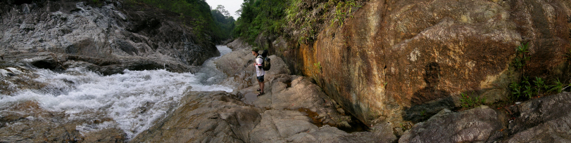 Ling Yeu Jou, my own photo.